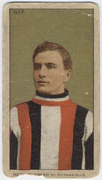 Martin Walsh. These cards were placed in cigarette packages c. 1910-12 and were collected just as hockey & baseball cards from bubble gum packages are today. Inscription: Inscribed recto: u.l. "No. 7" in print, lower edge "MA[RTIN] WALSH of Ottawa CLub" in print, inscription partially destroyed; verso top to bottom "HOCKEY SERIES / MARTIN WALSH, / Ottawa, / Has played with / Kingston, / 1906 /Camadian Soo, / 1907 / Ottawa, / 1909 to 1910" in print.